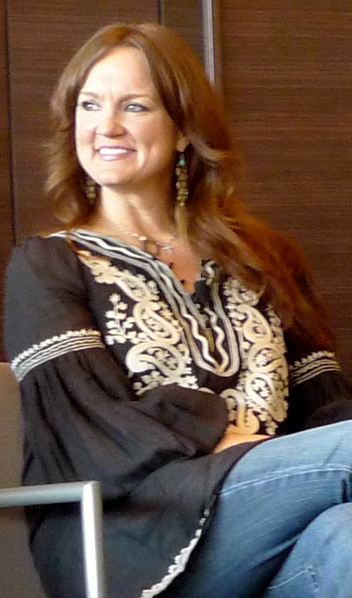 Ree Drummond in 2009